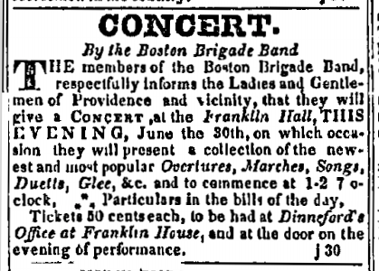 Newspaper item about the Boston Brigade Band. Providence Patriot (Rhode Island), June 30, 1830.